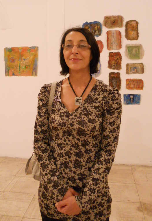 Gordana Kazimirović Jankov, Novi Sad, Painter from Serbia